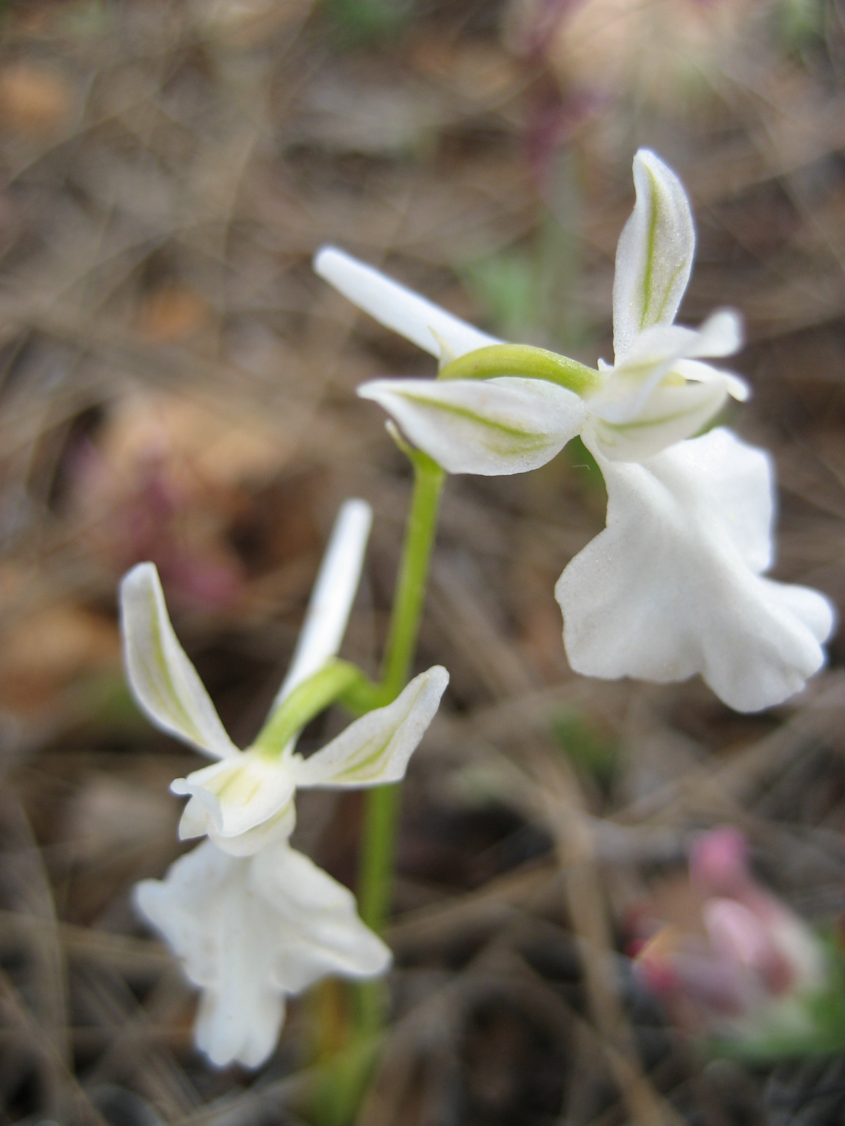 Orchis anatolica, white form. Chios, Greece. Near Nea Moni